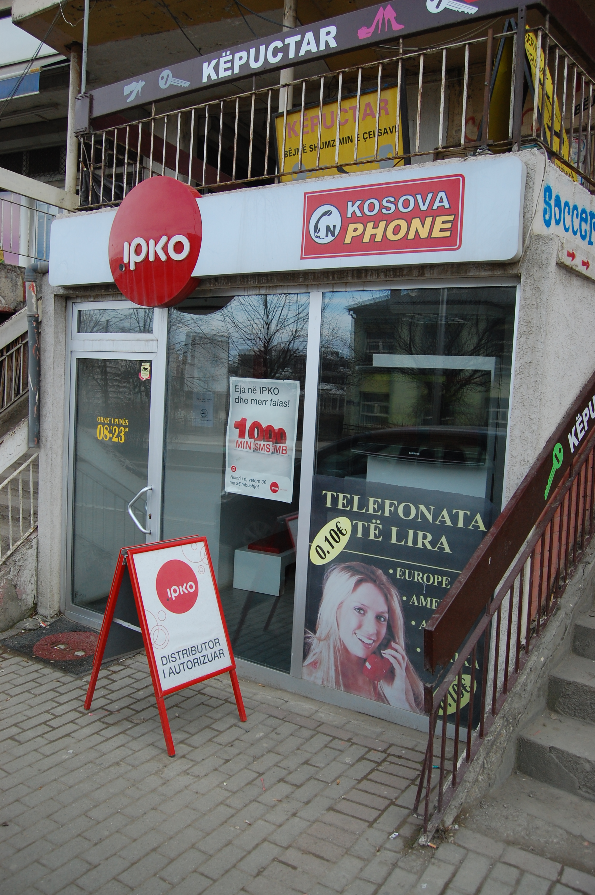 IPKO phone shop, Agim Ramadani, Vreshtat, Pristina, Republic of Kosovo